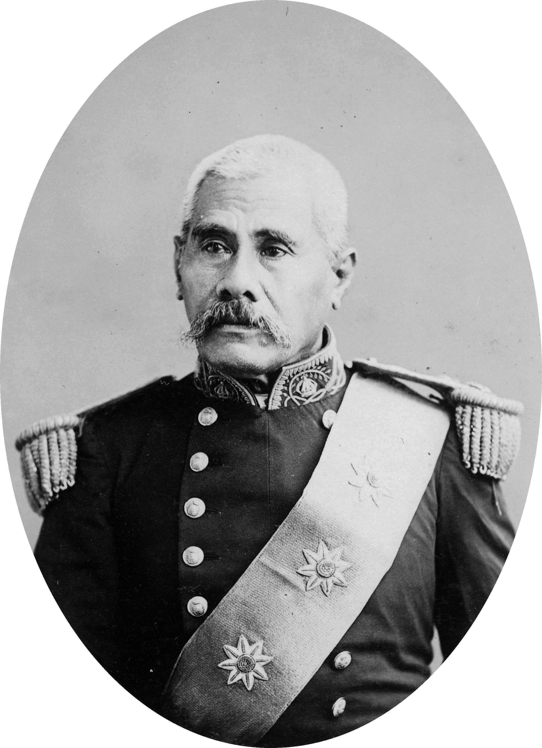 Malietoa Laupepa, 1895. Reference Number: PA1-q-223-34-1. Head and shoulders portrait of Malietoa Laupepa in 1895. Taken by an unidentified photographer.